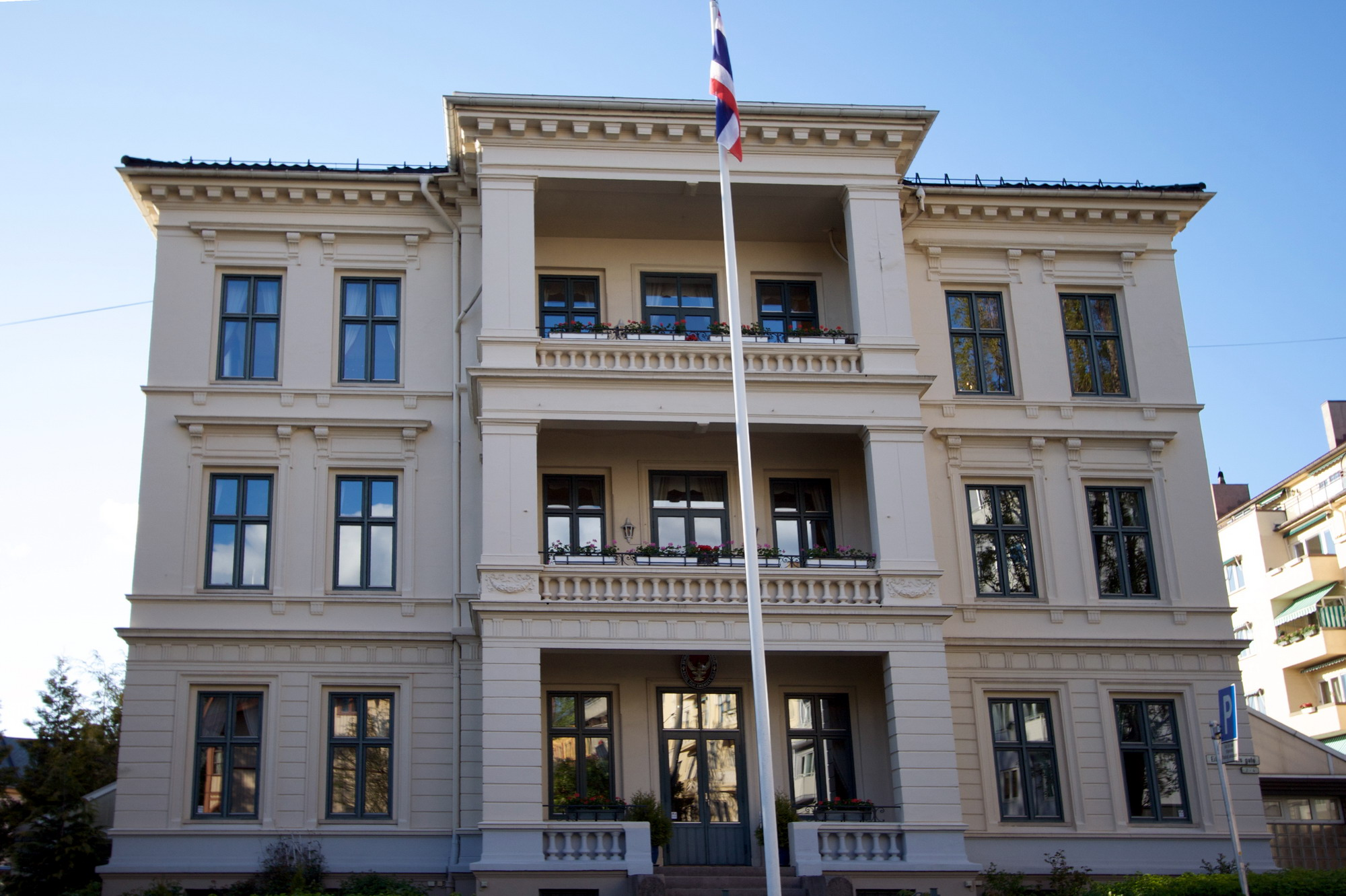 The embasssy of Thailand in Oslo. Eilert Sundts gate 4.